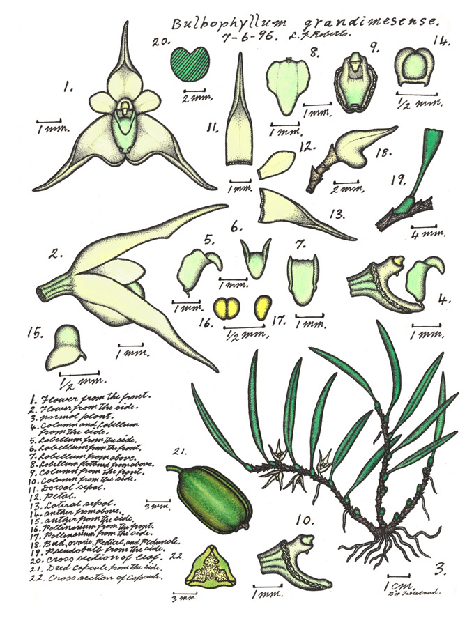 This imagfe is one of a series by Lewis Roberts